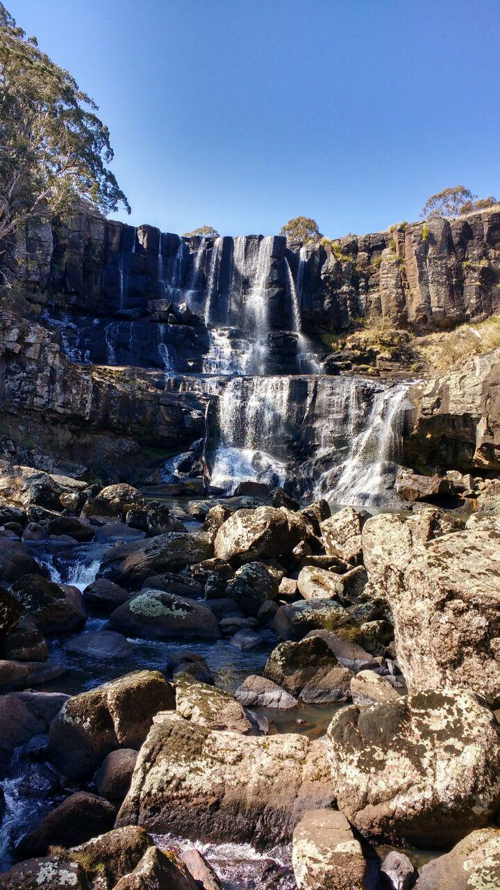 View from bottom of upper Ebor falls in drought.